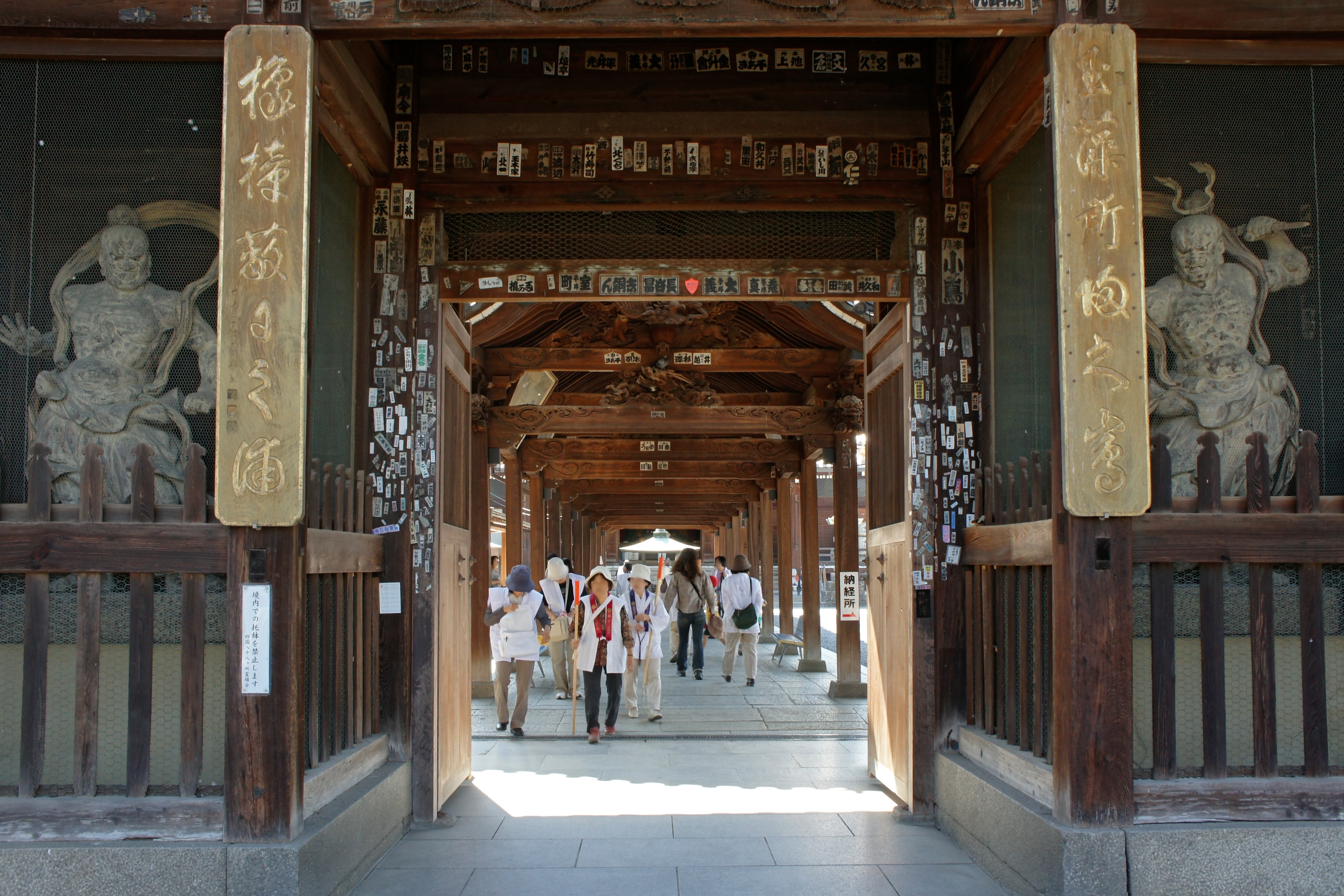 Zentsu-ji in Zentsuji, Kagawa prefecture, Japan.